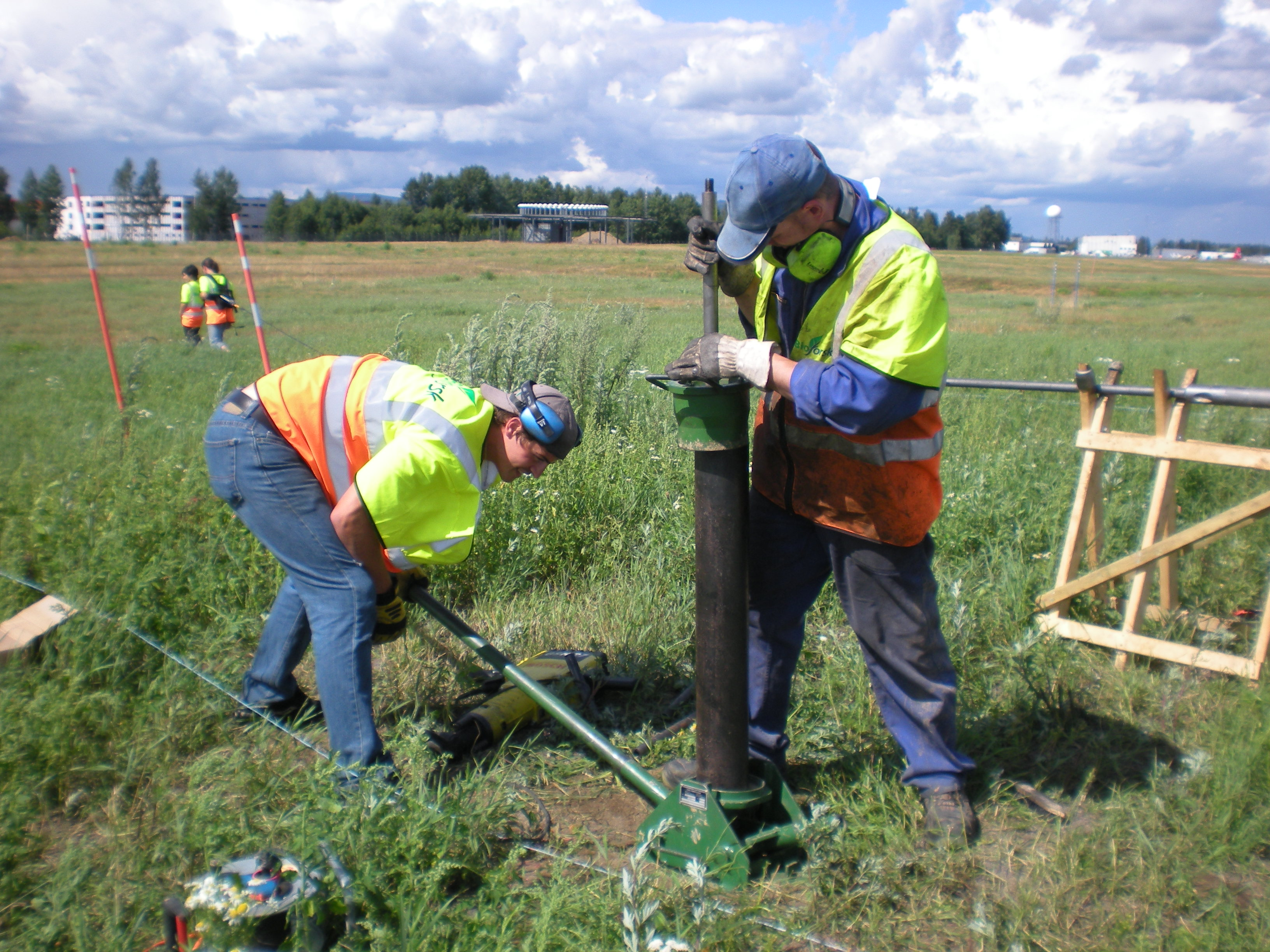 Field work at Oslo Airport, Gardermoen.